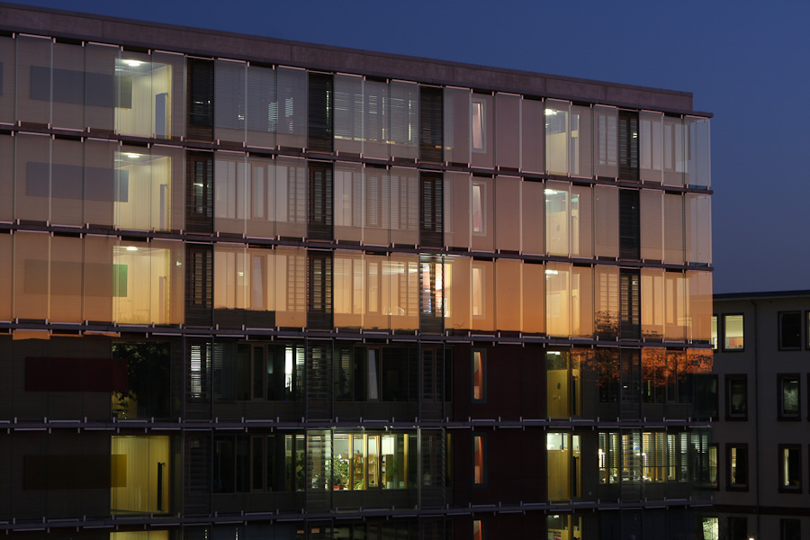 University of Applied Sciences in Frankfurt am Main - Main Building at Blue Hour